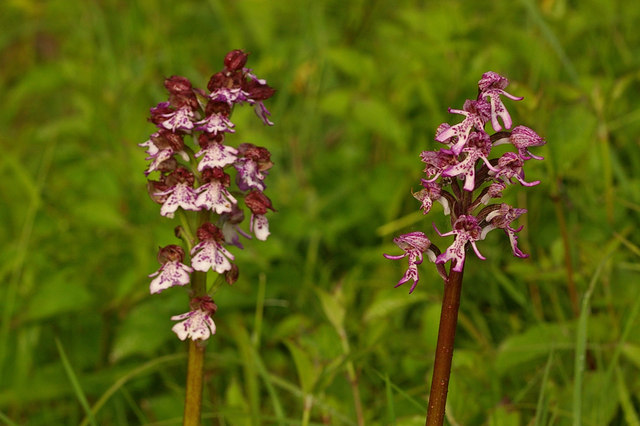 Lady Orchid and Lady/Monkey Orchid hybrid See 1314537 and 1314588. This photo allows a comparison of the two plants, in particular the longer "arms" and "legs" of the hybrid, taken from its other parent (see 1314523).